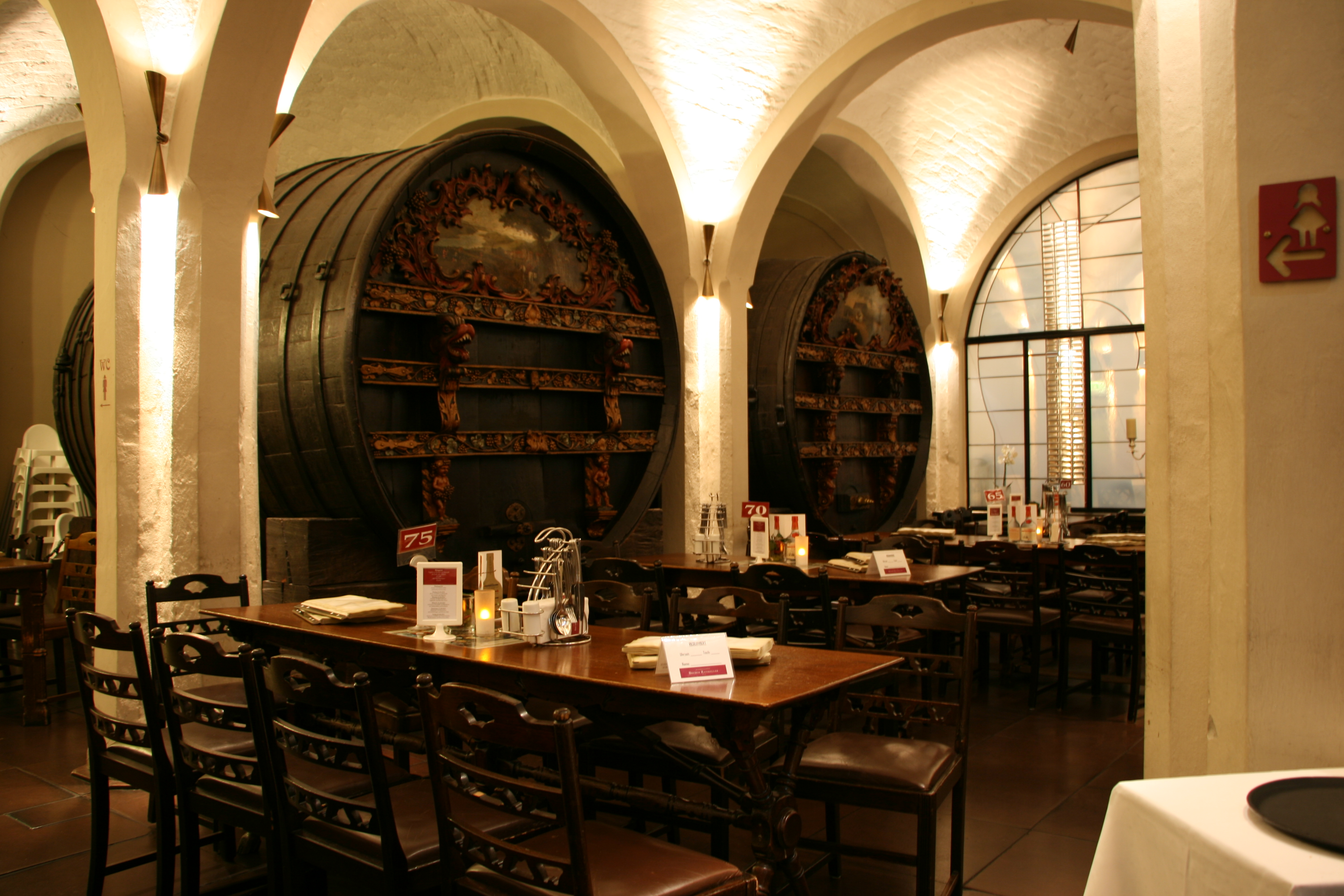 The seating room of the Ratskeller in Bremen, Germany